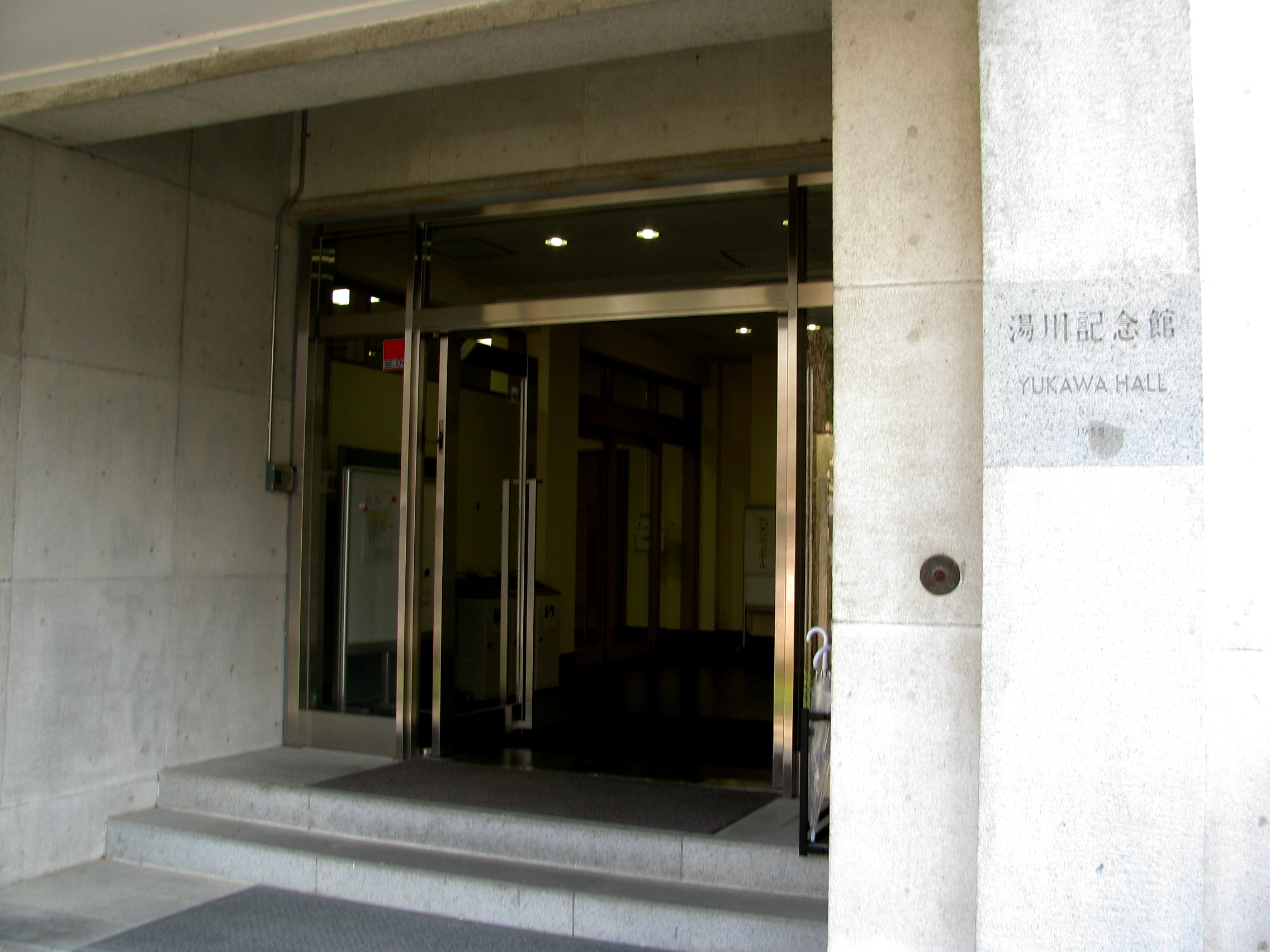 YUKAWA HALL at Kyoto University